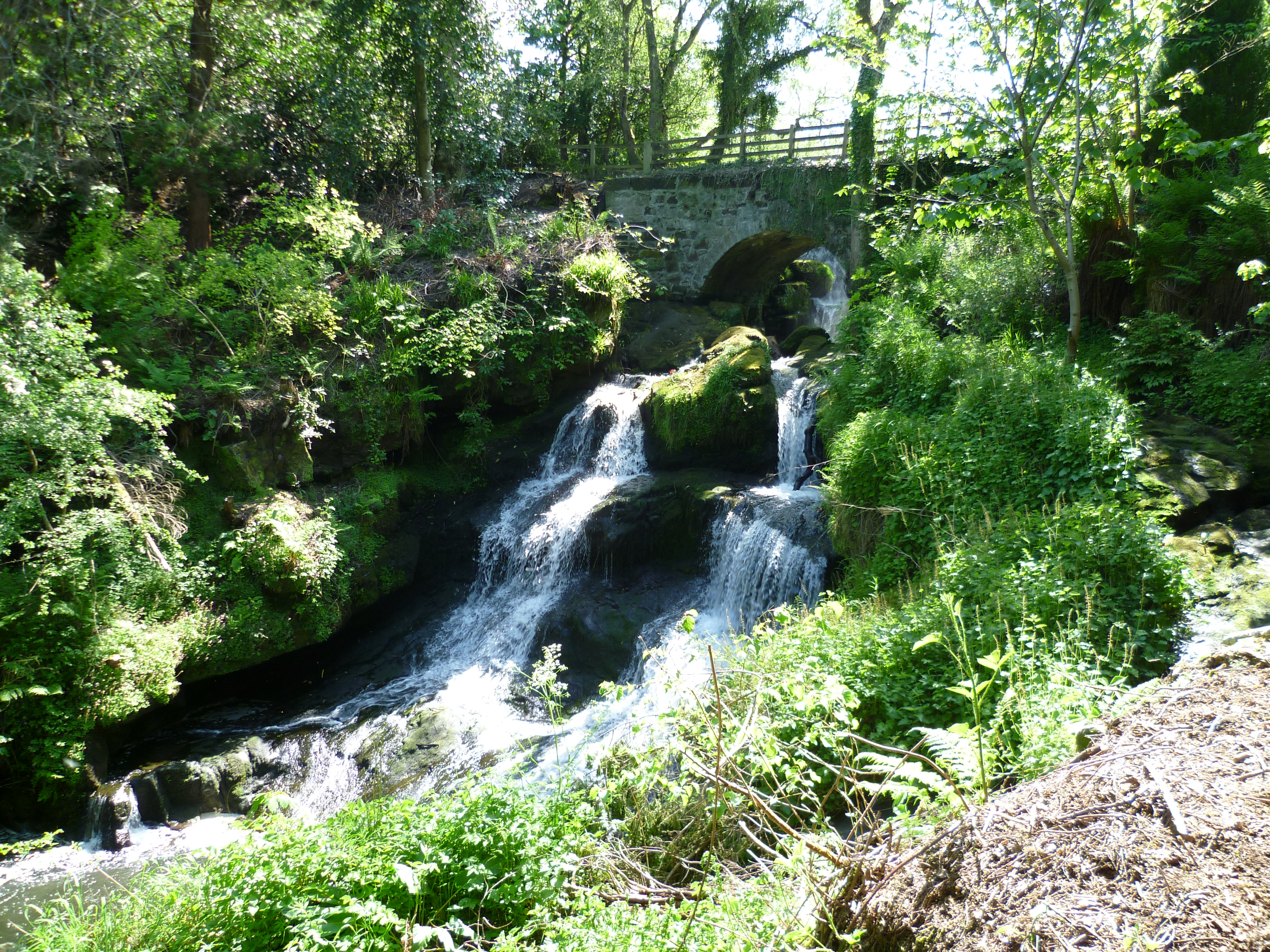 Gàidhlig: Eas Ghleann Rouken (Siorrachd Rinn Friù an Ear), Cèitean 2012.